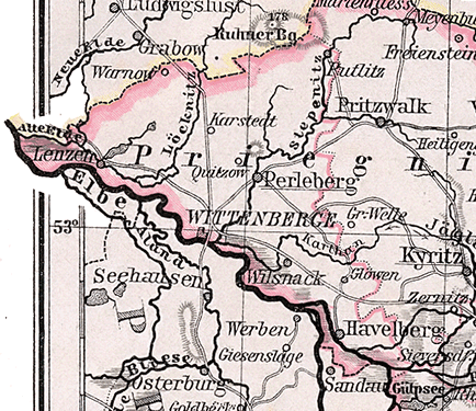 Detail from a map of Brandenburg.